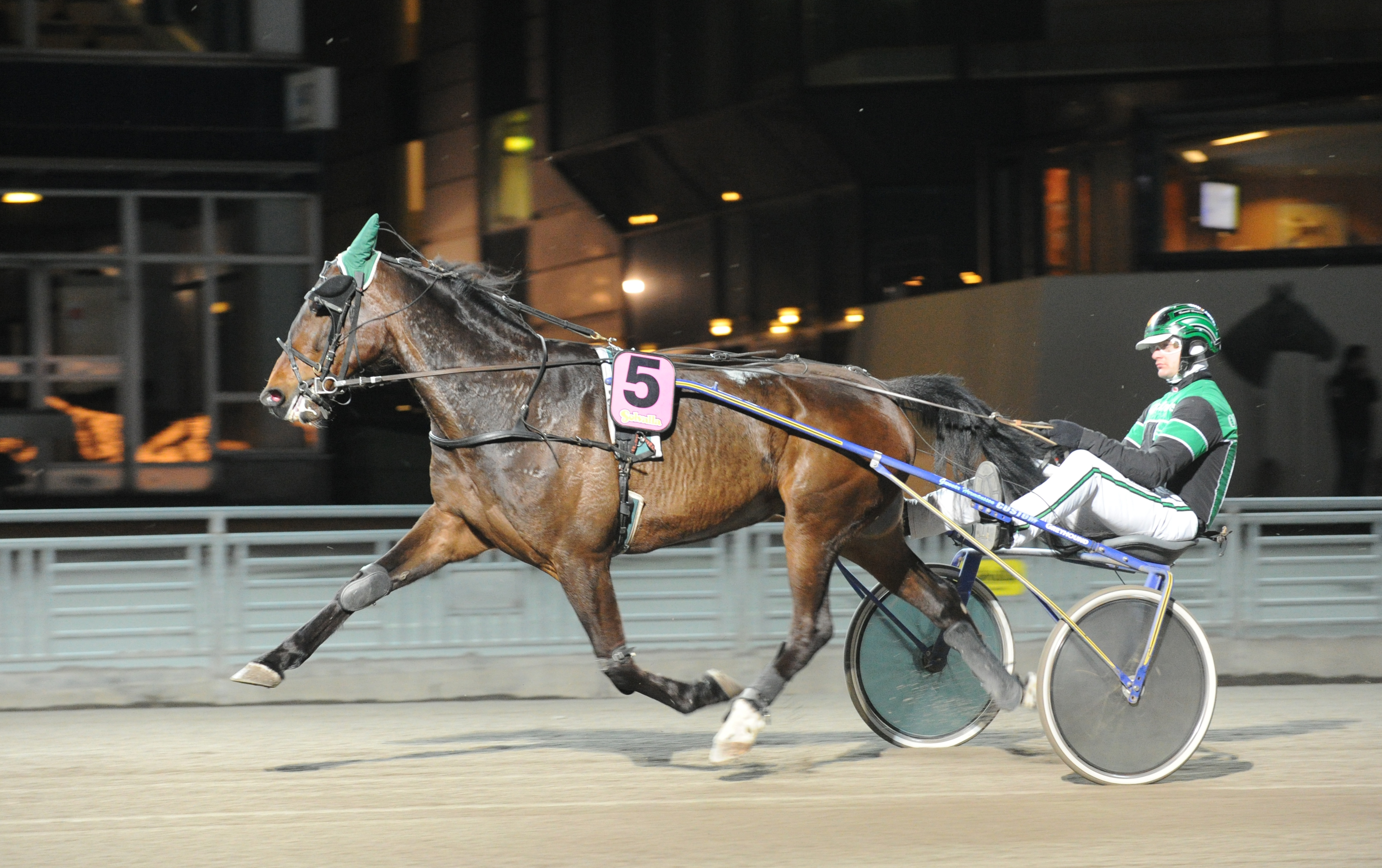 Lindy Later & Kenneth Haugstad 2013.